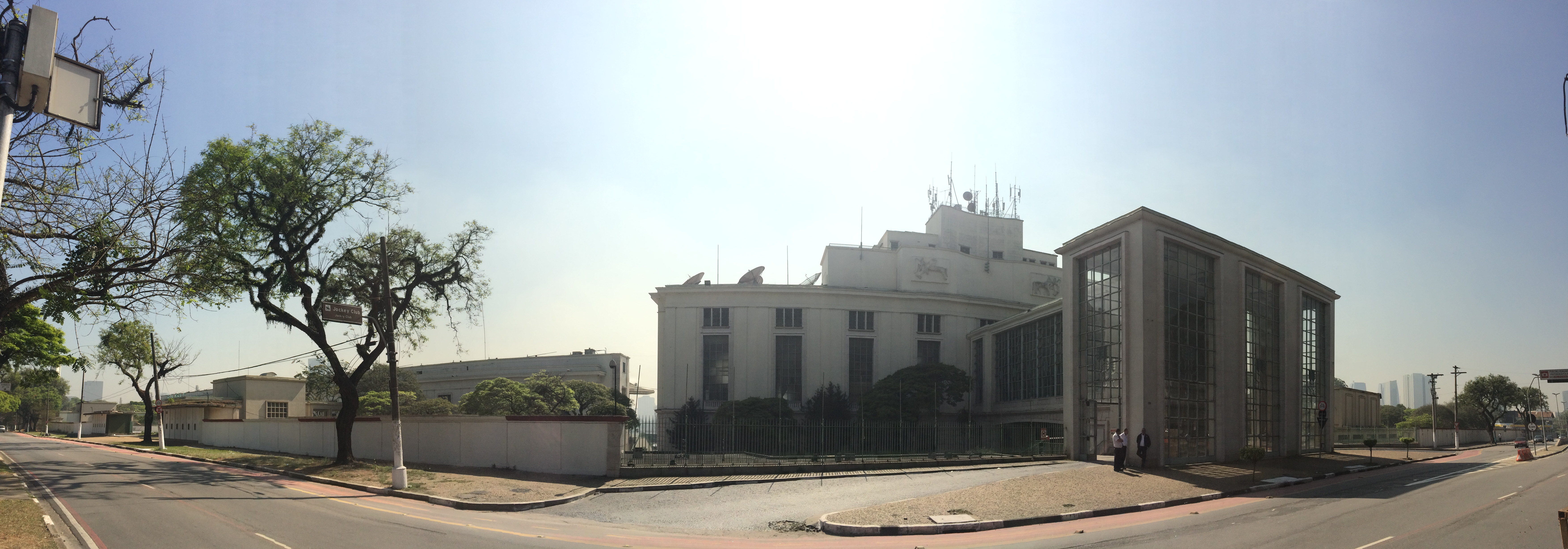 Entrada principal do Jockey Club de São Paulo, Avenida Lineu de Paula Machado, São Paulo (SP), Brasil